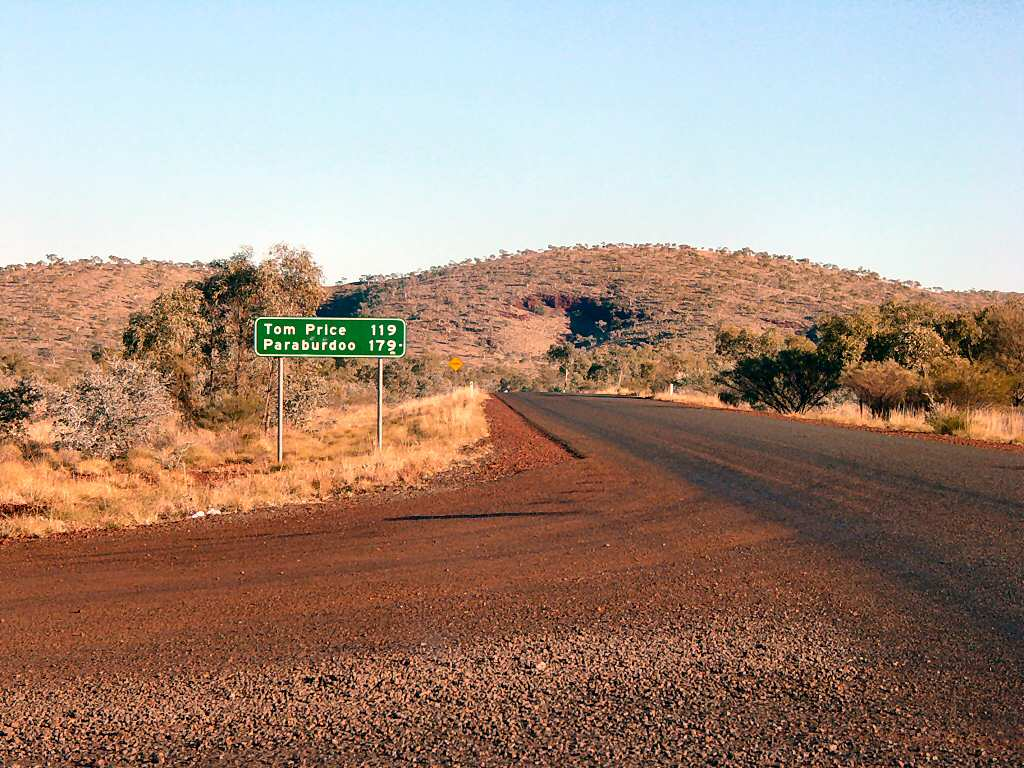 Photo taken north of the Pilbara looking at the range.